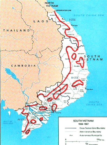 The approximate cease fire lines in South Vietnam as of the date of the signing of the Paris Peace Accords, 17 January 1973